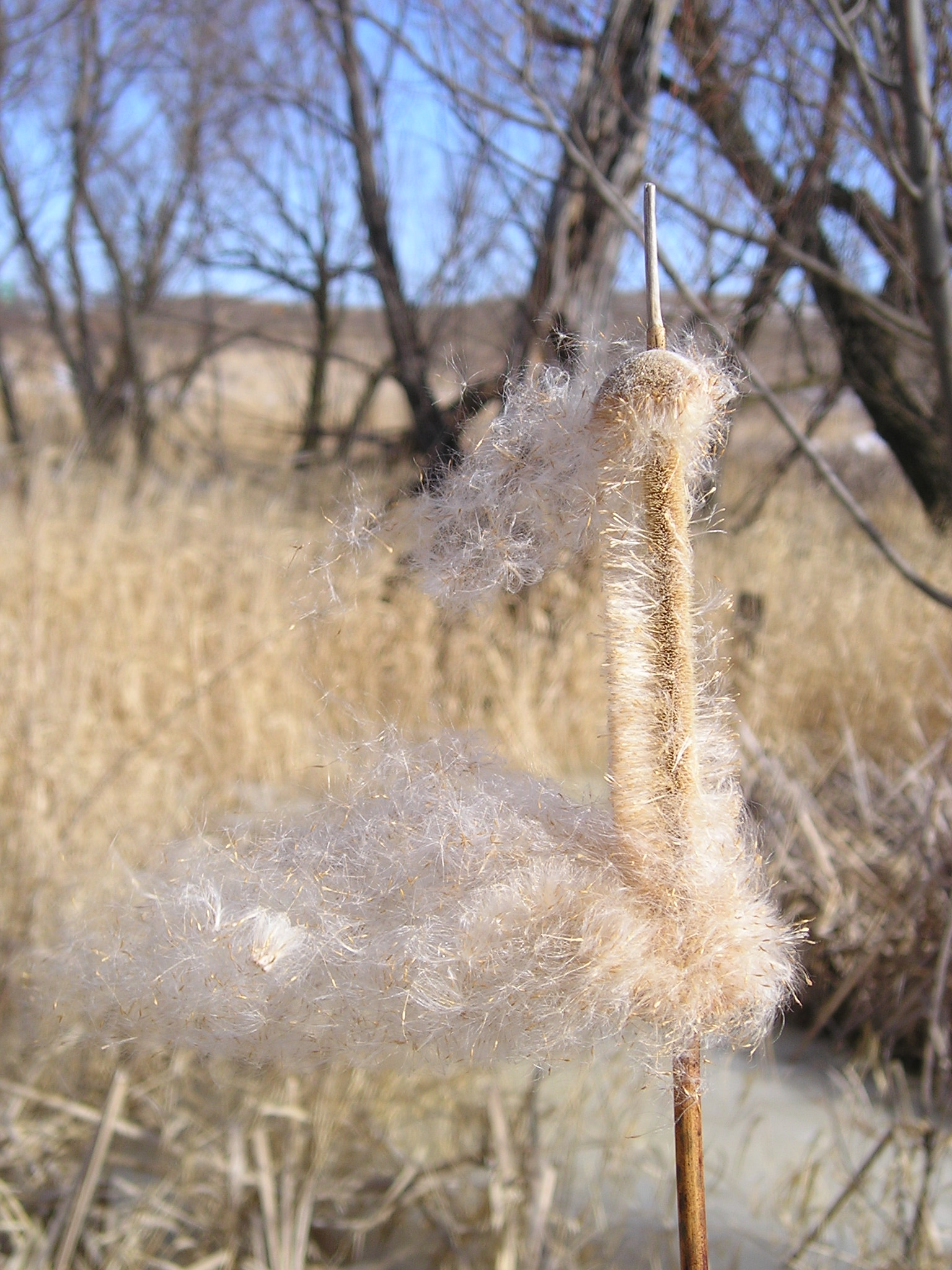 Seeds in the wind.